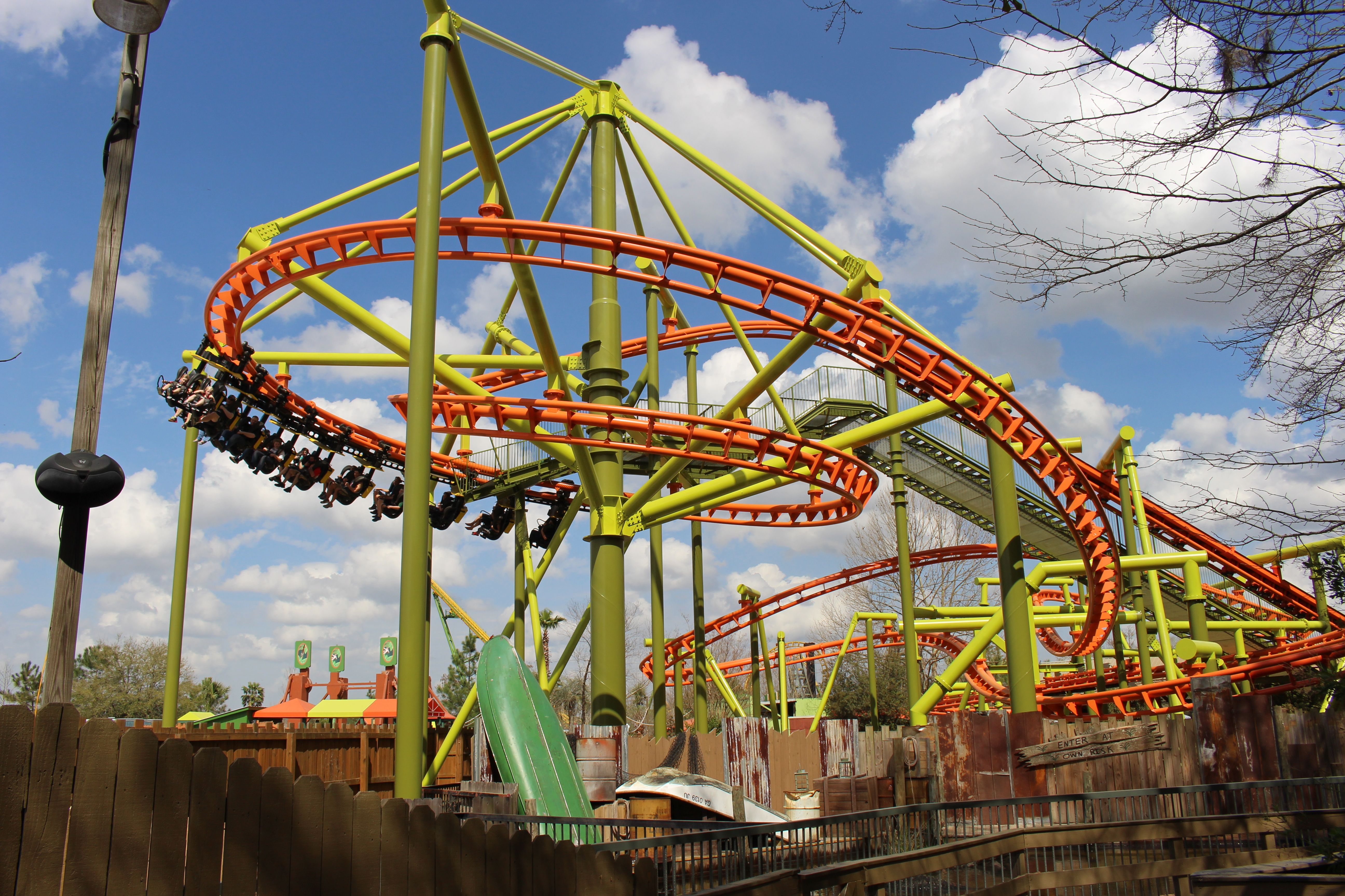 Wild Adventures, Lowndes County, Georgia